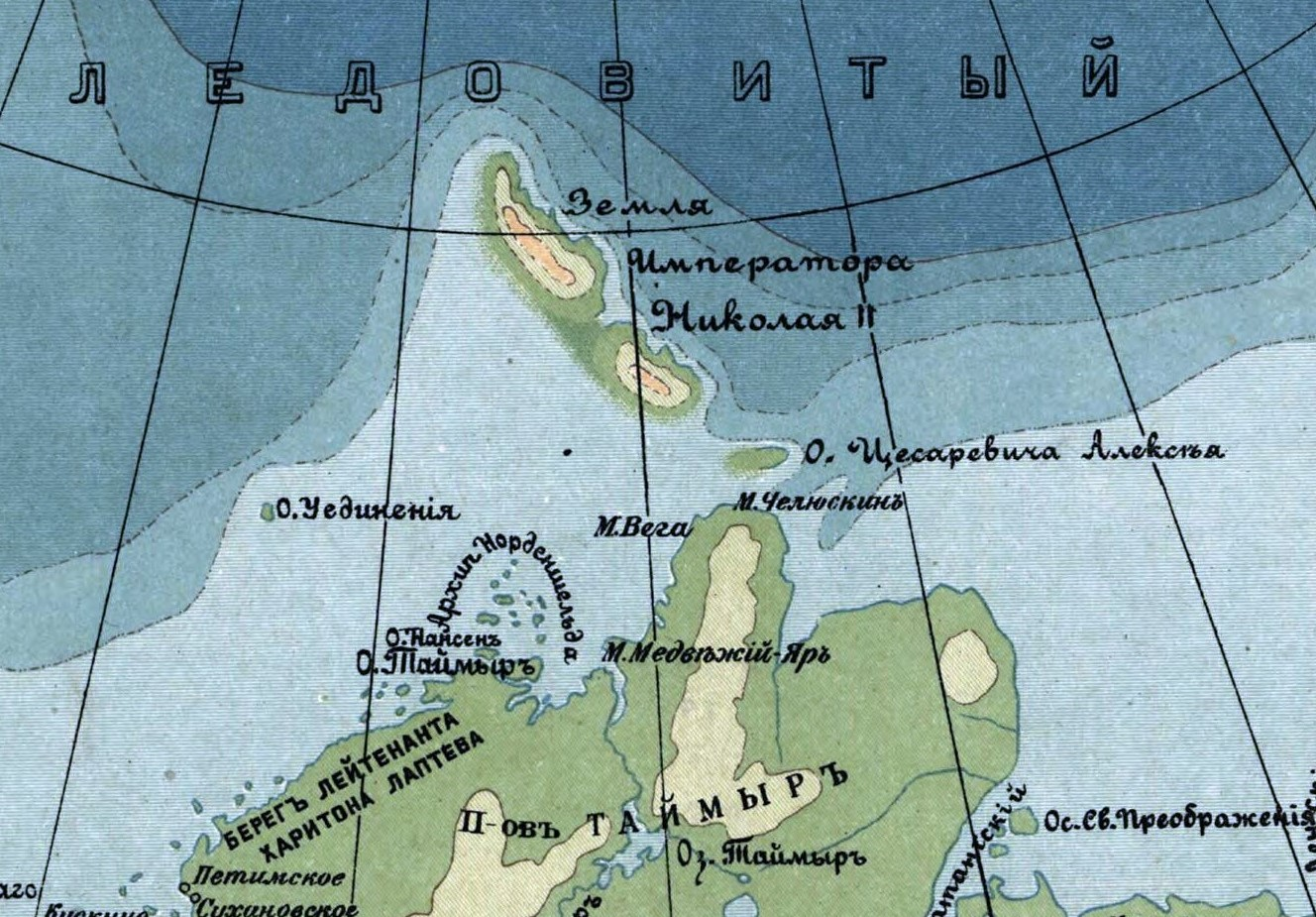 Emperor Nicholas II Land in the section of a map of the Russian Empire. Back then it was believed that what is now Severnaya Zemlya was one island.